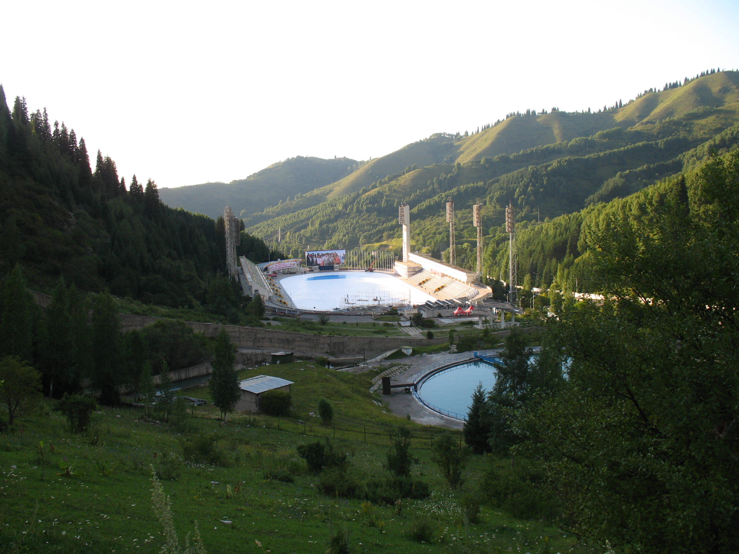 Almaty, Medeo